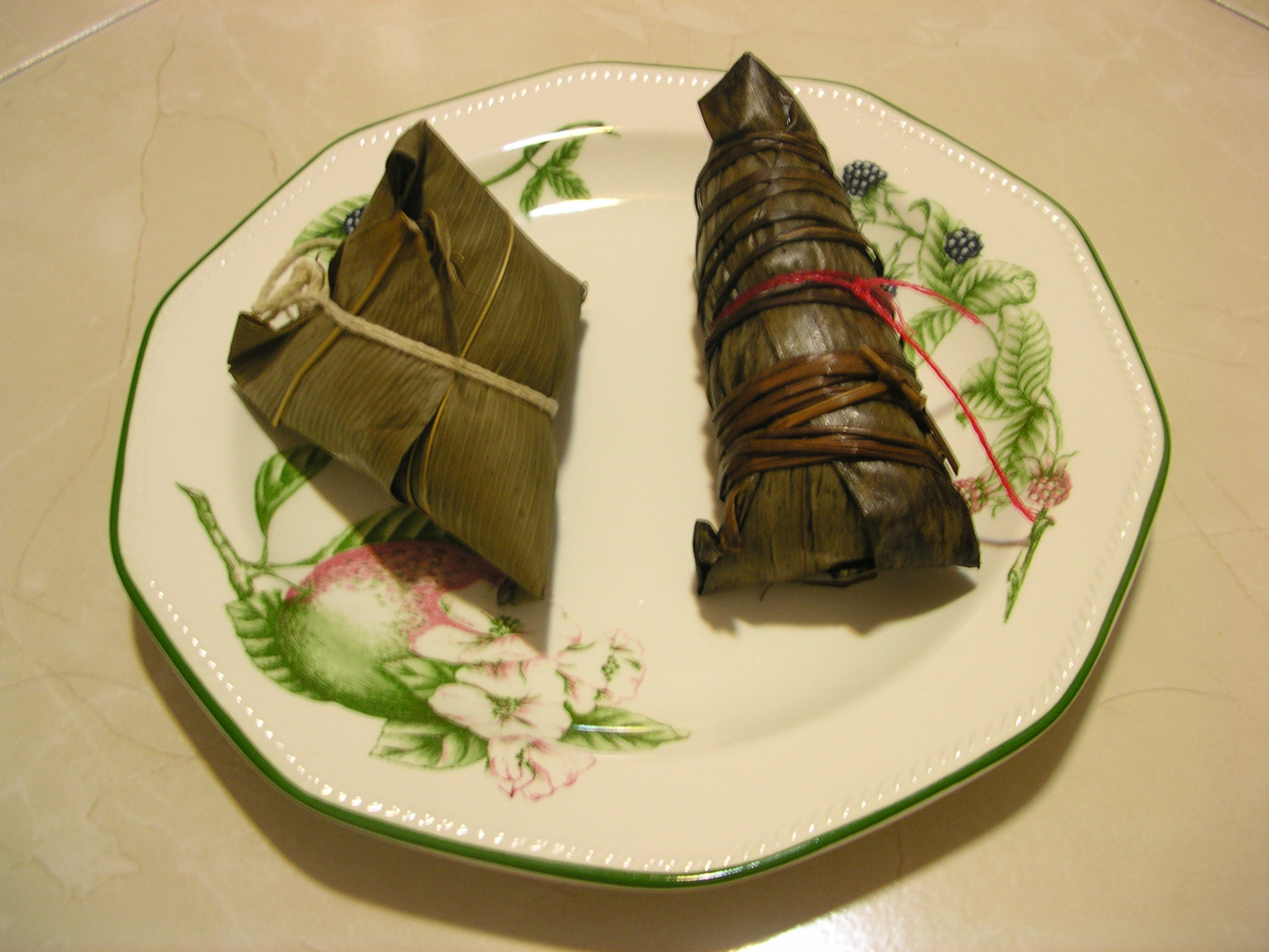 Rice Dumpling, Zong(粽) or Zongzi(粽子).